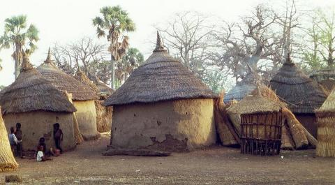 Huts in the village of Dourtenga, departement of Dourtenga, province of Koulpélogo in Burkina Faso (West Africa).